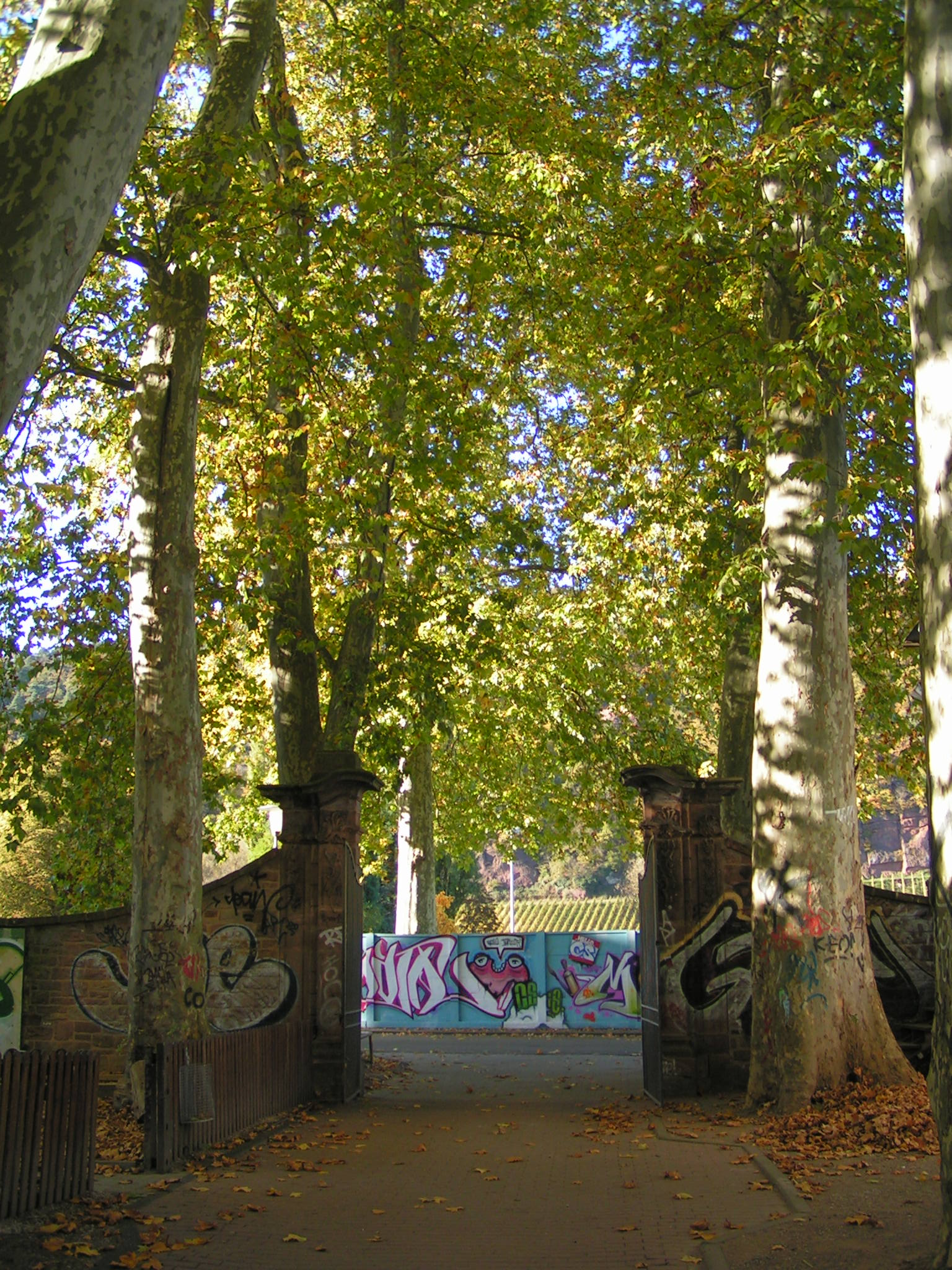 Exzellenzhaus, Trier, Germany